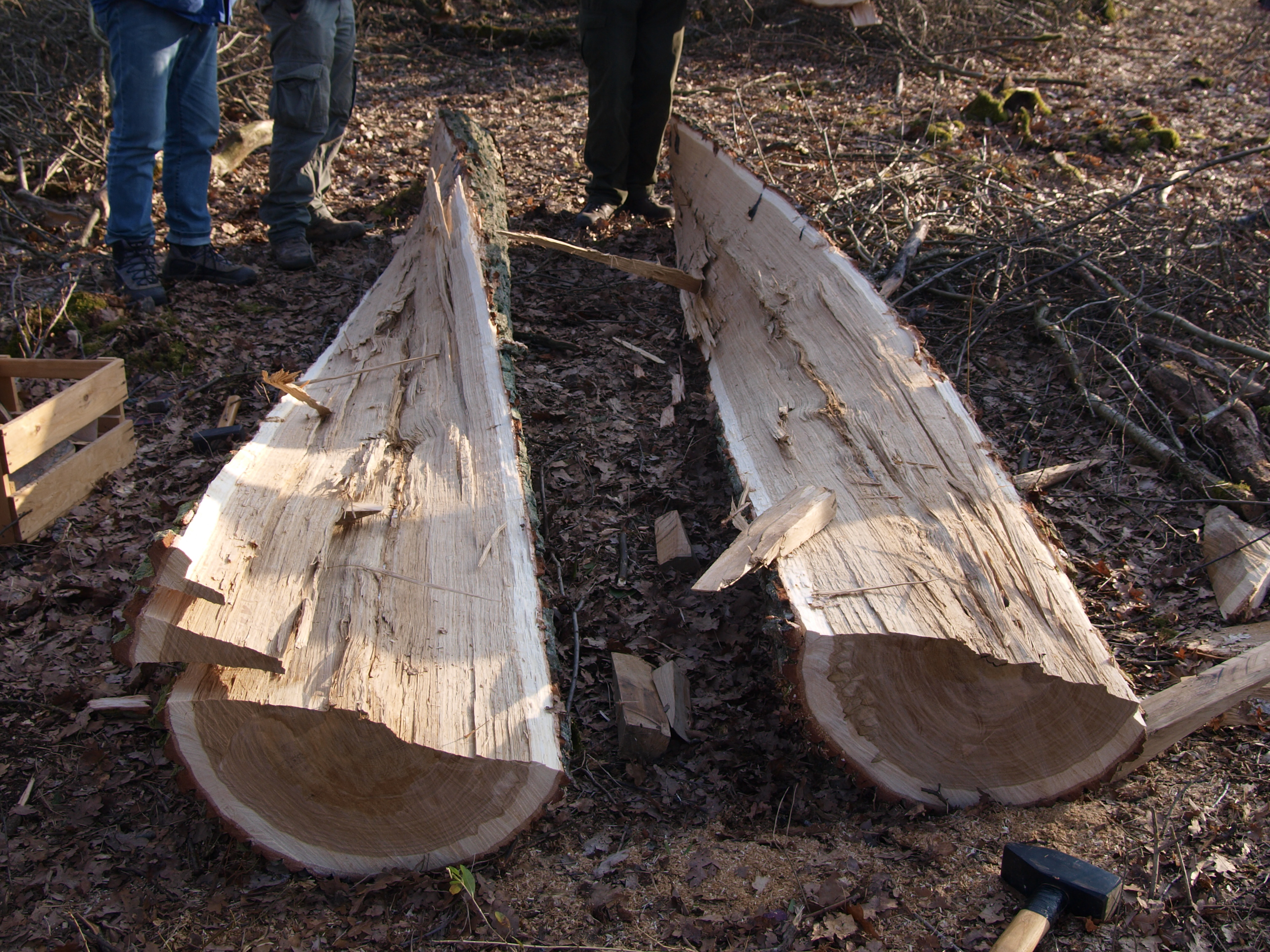 Twisted oak trunk of a 120 years old oak. 90° on a length of approx. 300 cm. Photographed at Ergersheime Experiment 2013 in Ergersheim, Bavaria, Germany.